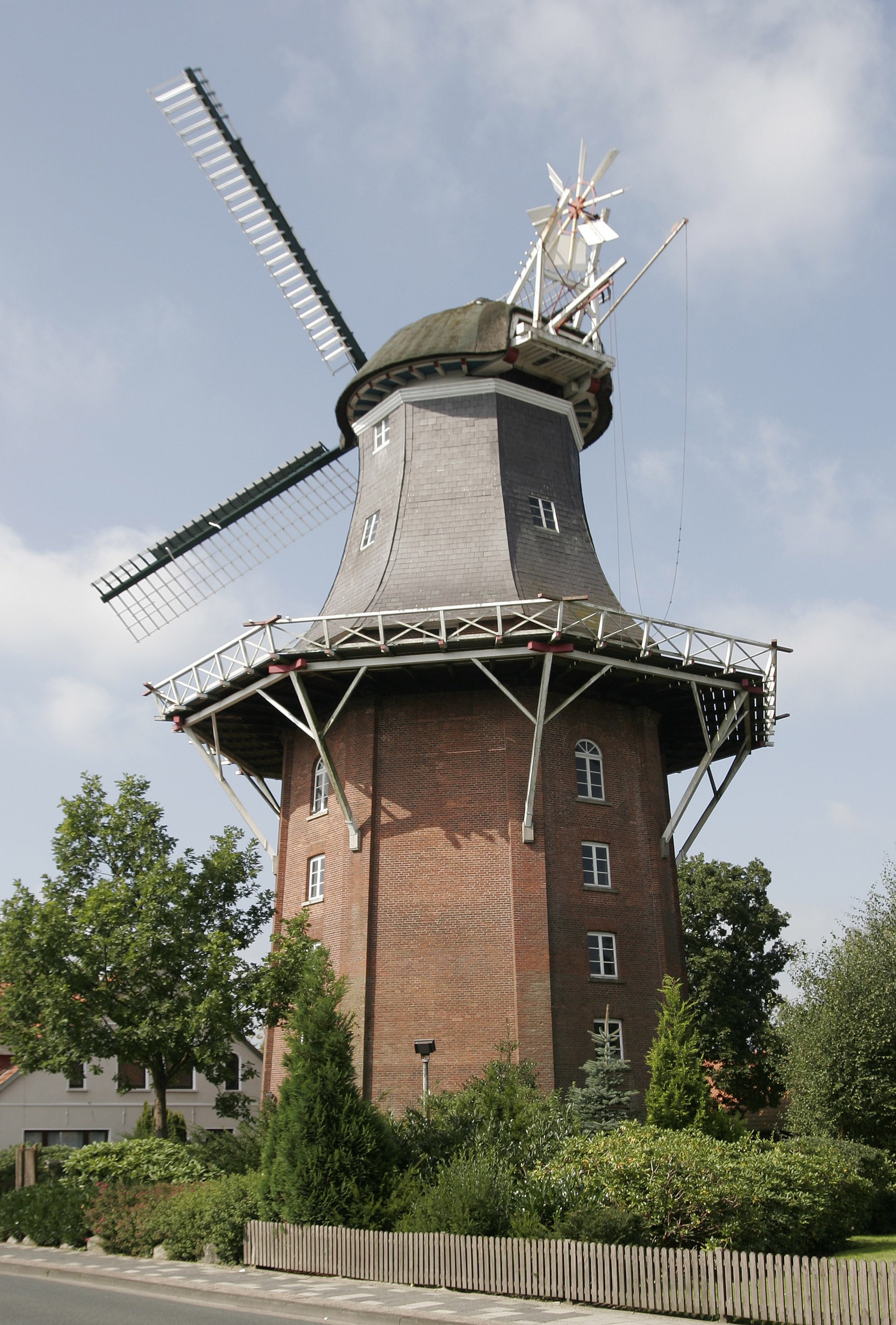 Windmill of Varel (Germany)